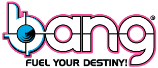 The logo for Bang Energy, a Florida based energy drink company.